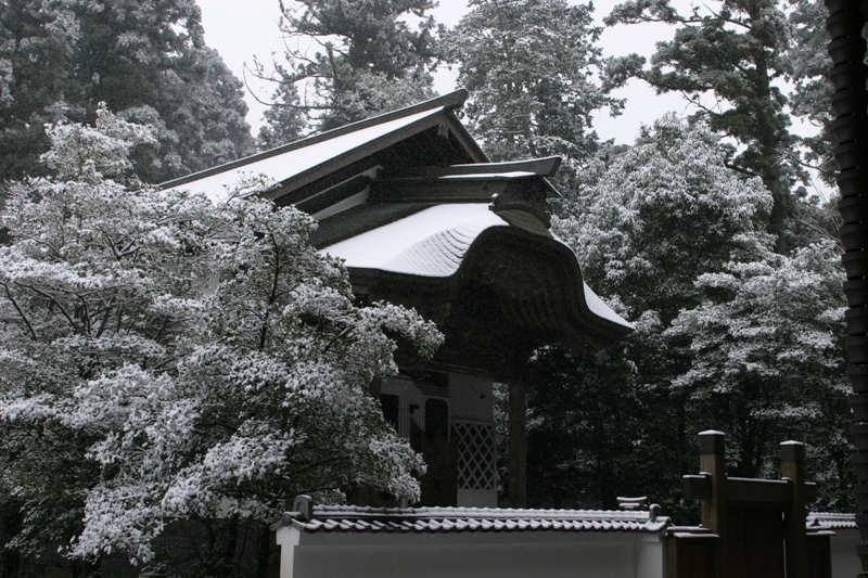 The old Treasure House at Taisekiji, Fujinomiya, Shizuoka, Japan. Relics from the temple's 750-year history, including manuscripts and Gohonzons in Nichiren's hand and objects used by him, are stored here. These artifacts are carried out and displayed in the Grand Reception Hall during an airing-out ceremony (O-mushi Barai) held at the beginning of every April. Private photo released into the public domain.